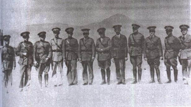 Directorio cívico El Directorio cívico gobernó El Salvador desde el: 2 al 4 de diciembre 1931. Compuesto totalmente de militares, el directorio cívico dio inicio a las presidencias y dictaduras militares. El directorio cívico terminó su gobierno cuando le fue entregado la presidencia de la nación salvadoreña al vicepresidente Maximiliano Hernández Martínez